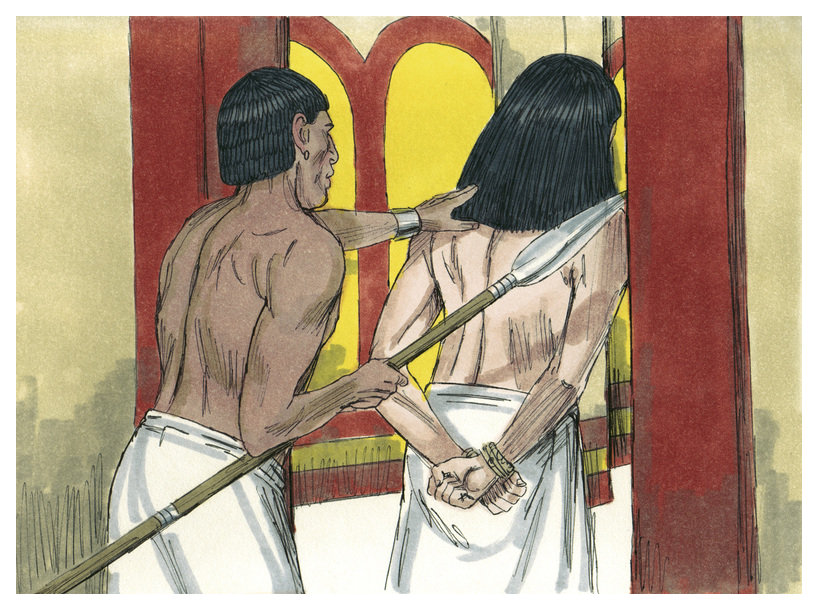 Biblical illustration of Book of Genesis Chapter 39